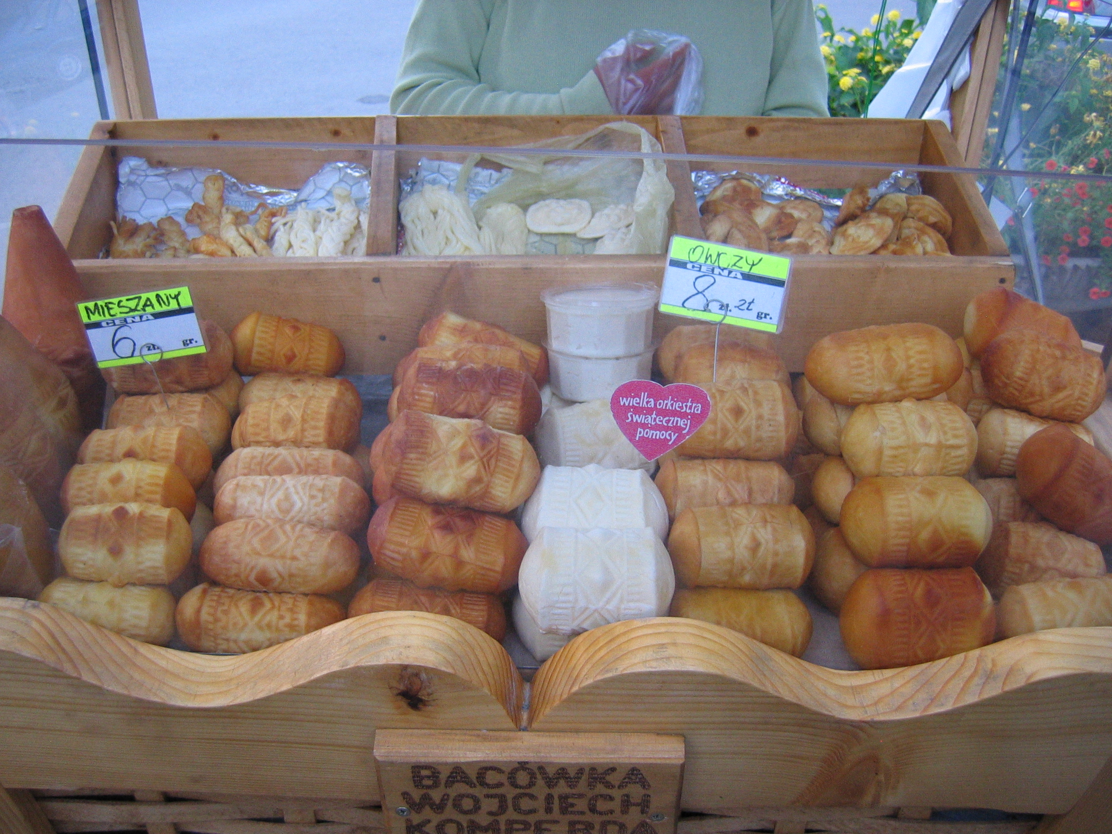 Oscypek from Zakopane.